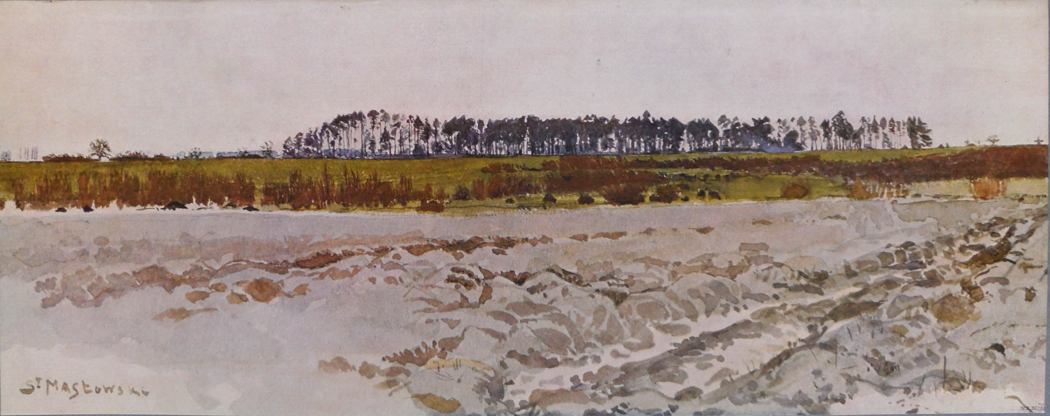 Landscape watercolour painting with grove in horizon. It's difficult to establish precise date of creation, however it's evident, that it was painted between 1880 and 1890 near Pieczyska village (Poland) - where artist frequently visited his friend Czesław Tański. The picture is a copy from publication " Sztuka Polska - Malarstwo w reprodukcjach kolorowych", ed. H.Altenberg, Lwów, 2nd ed. [1904].